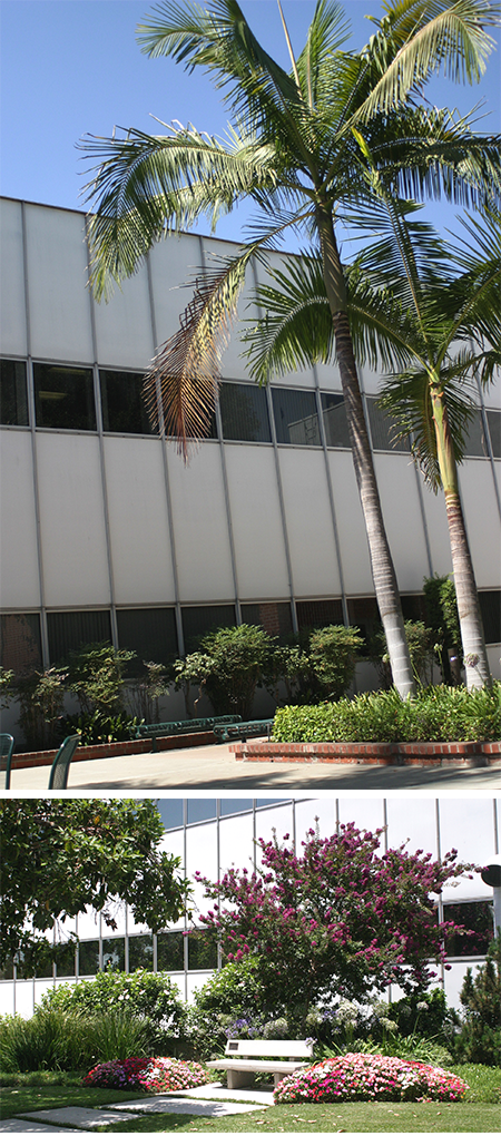 Two photographs of the exterior of the Center for Health Professions building on the Health Science Campus of the University of Southern California.